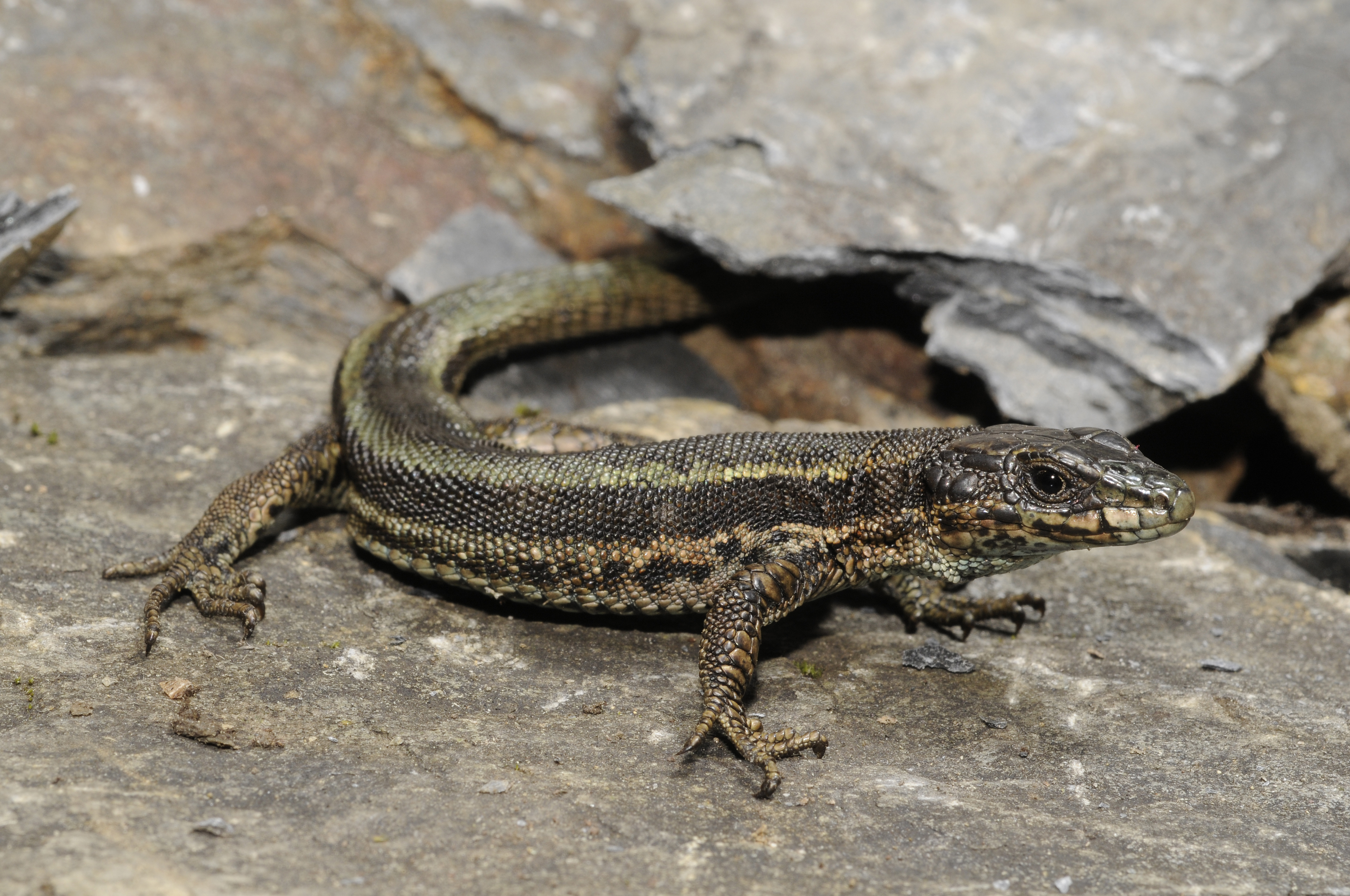 Aran rock lizard (Iberolacerta aranica) from the the Val d'Aran in Spain